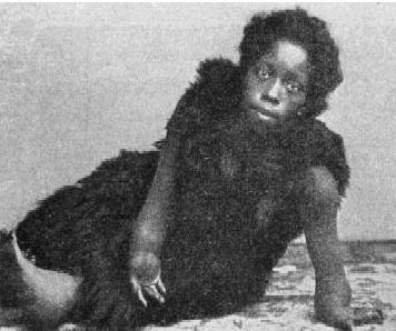 Mrs. Alice Vance as "the bear-like woman"